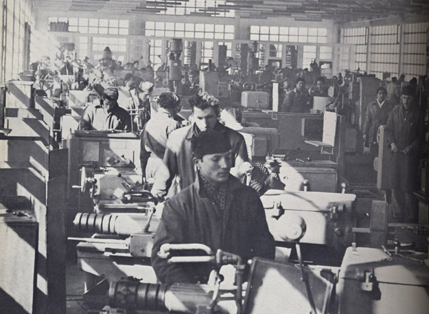 Metal shop in Kabul, Afghanistan. Original caption: "Skilled workers like these press operators are building new standards for themselves and their country."